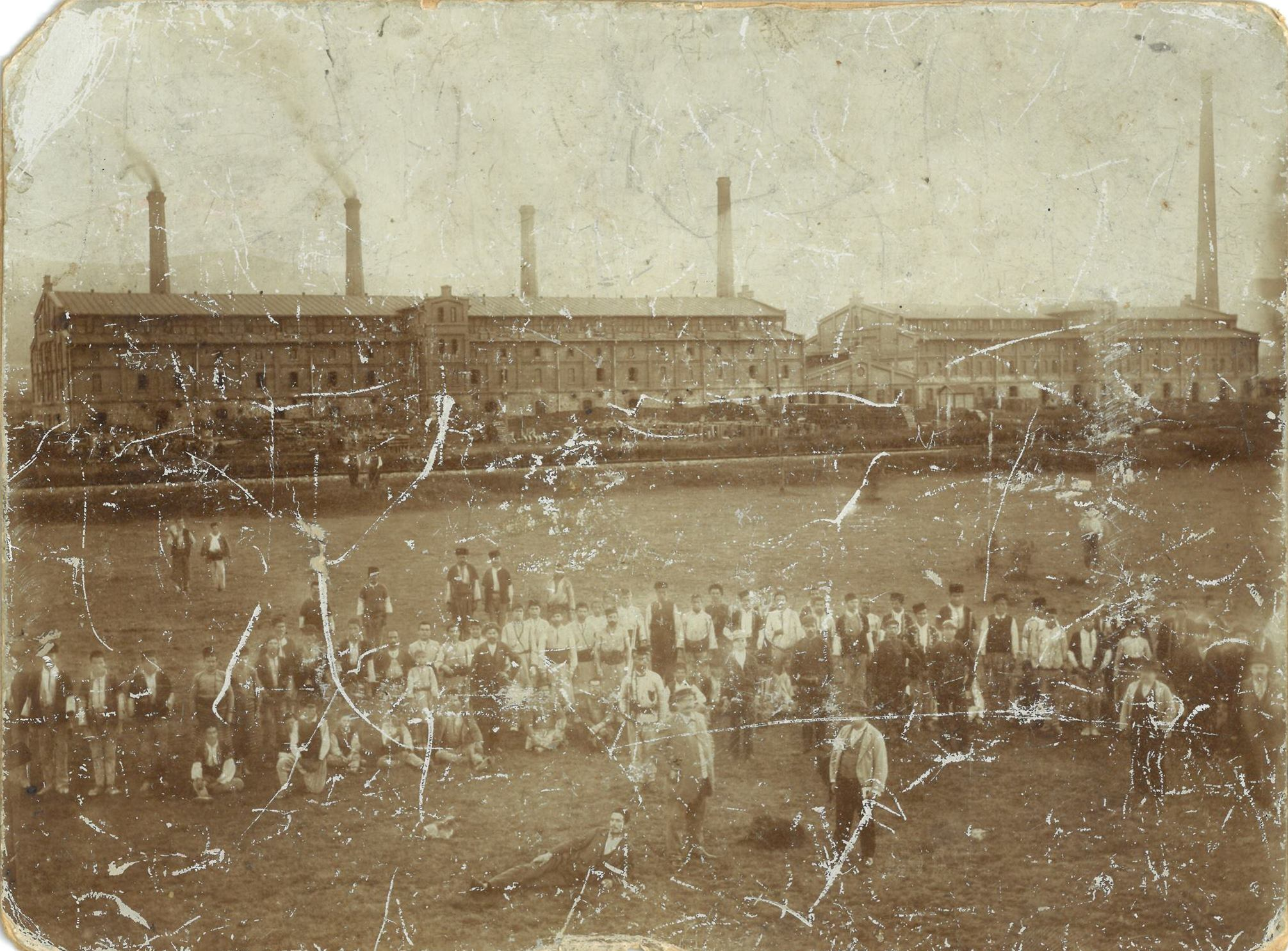 Izida factory in Elin Pelin Station, Bulgaria